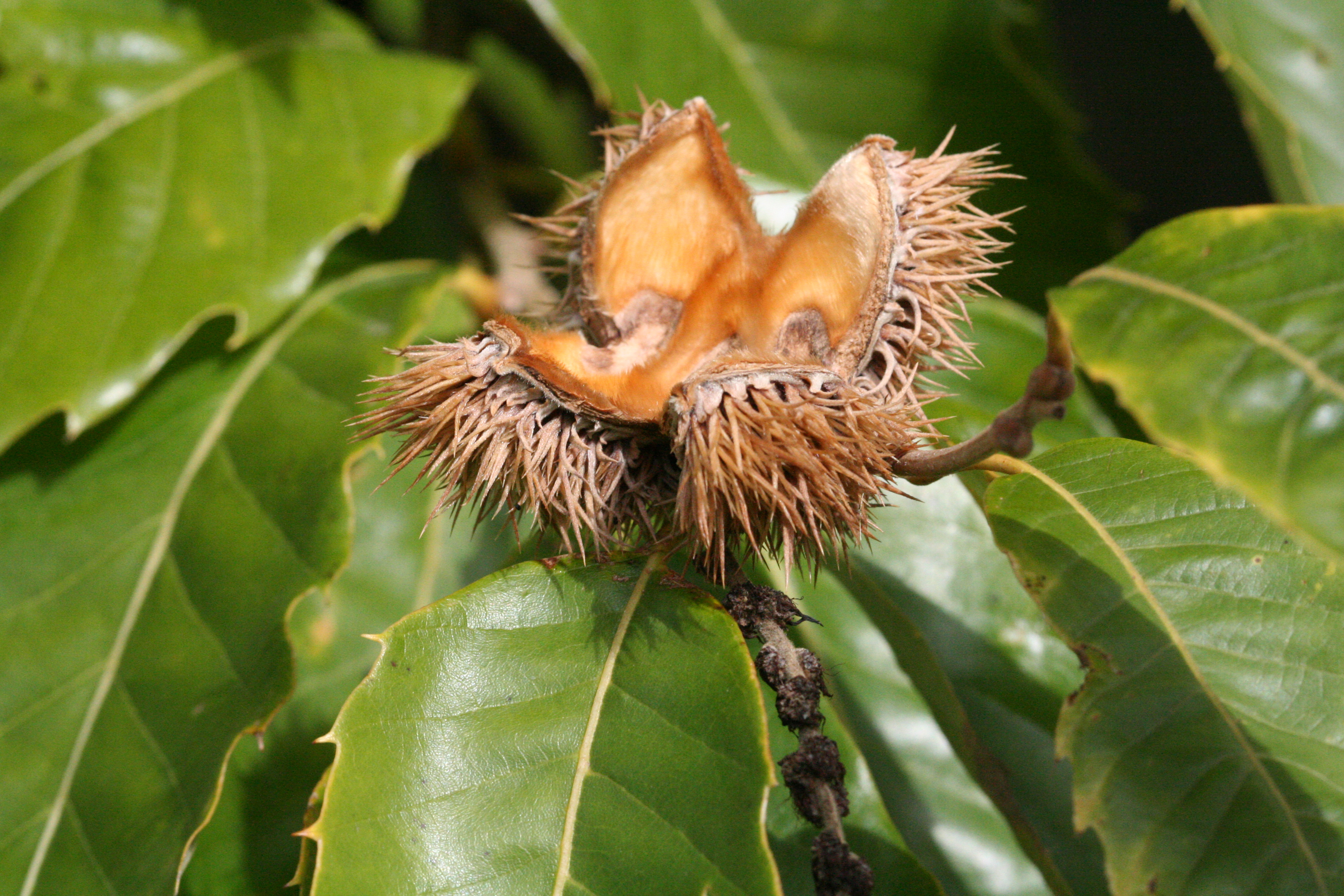 Castanea mollissima (Chinese chestnut) taken at Baltimore Woods Nature Center, Marcellus, New York